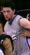 Justin Graham drives to the basket in SJSU basketball game against Hawaii